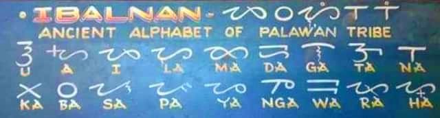 Ibalnan, from the Palaw'an tribe, Palawan Philippines.